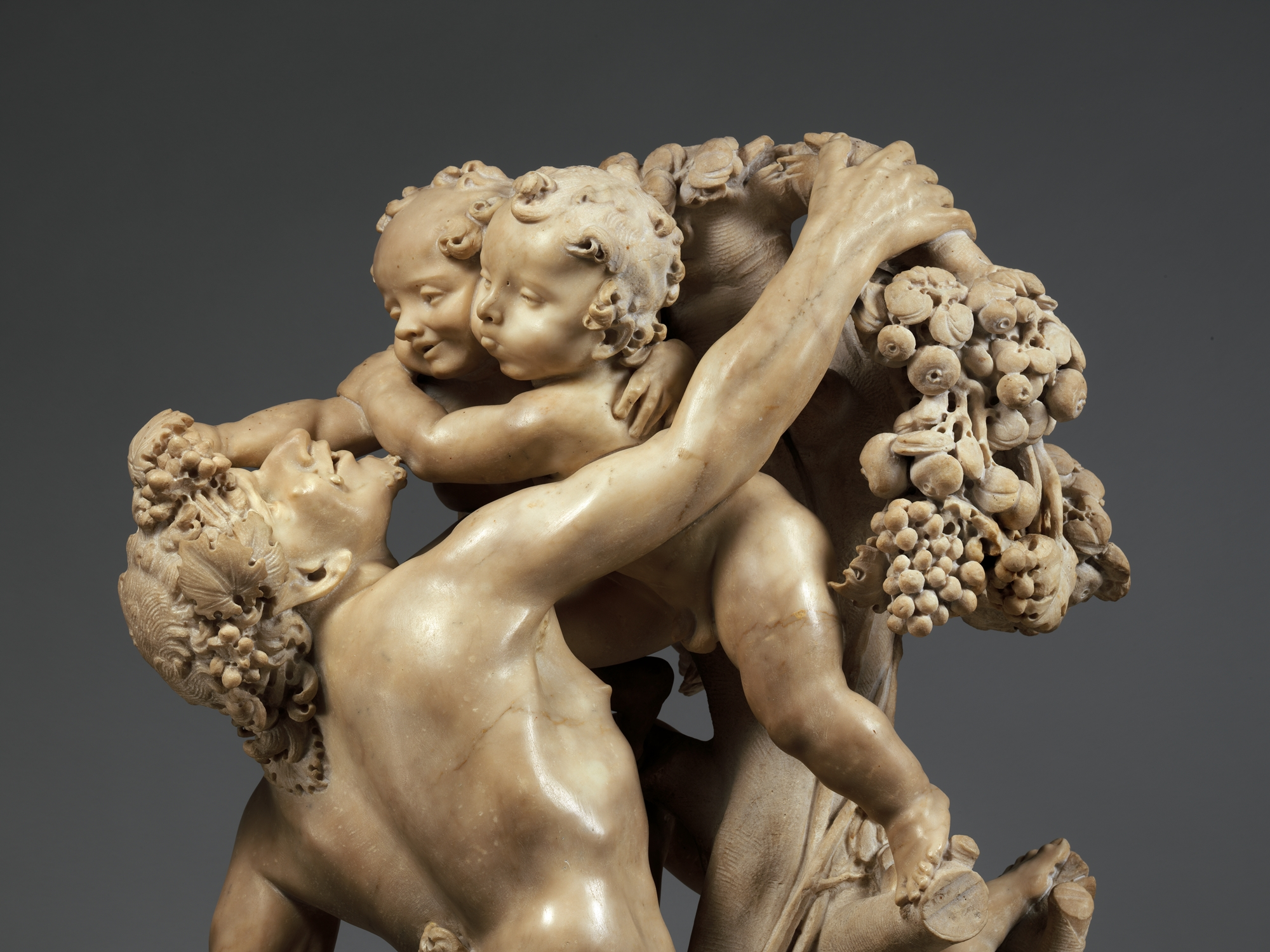 Italian, Rome; Group; Sculpture